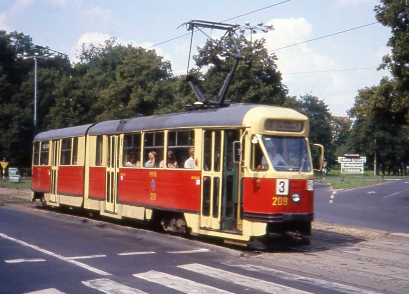 Route 3 from Polnoc to Bydgoska, car 209 from 1974.. All these 102Na vehicles have been with drawn .In the background signs to Gdansk, Lodz and Bydgoszcz. 208 - 210 were 1974 Konstal 102Na trams, which were sold to Szczecin in 1994 , 208-10 becoming fleet no 603 607 and 605 respectively in MZK Szczecin. 201-207 were Konstal 803N The gauge in Torun is 1000mm.